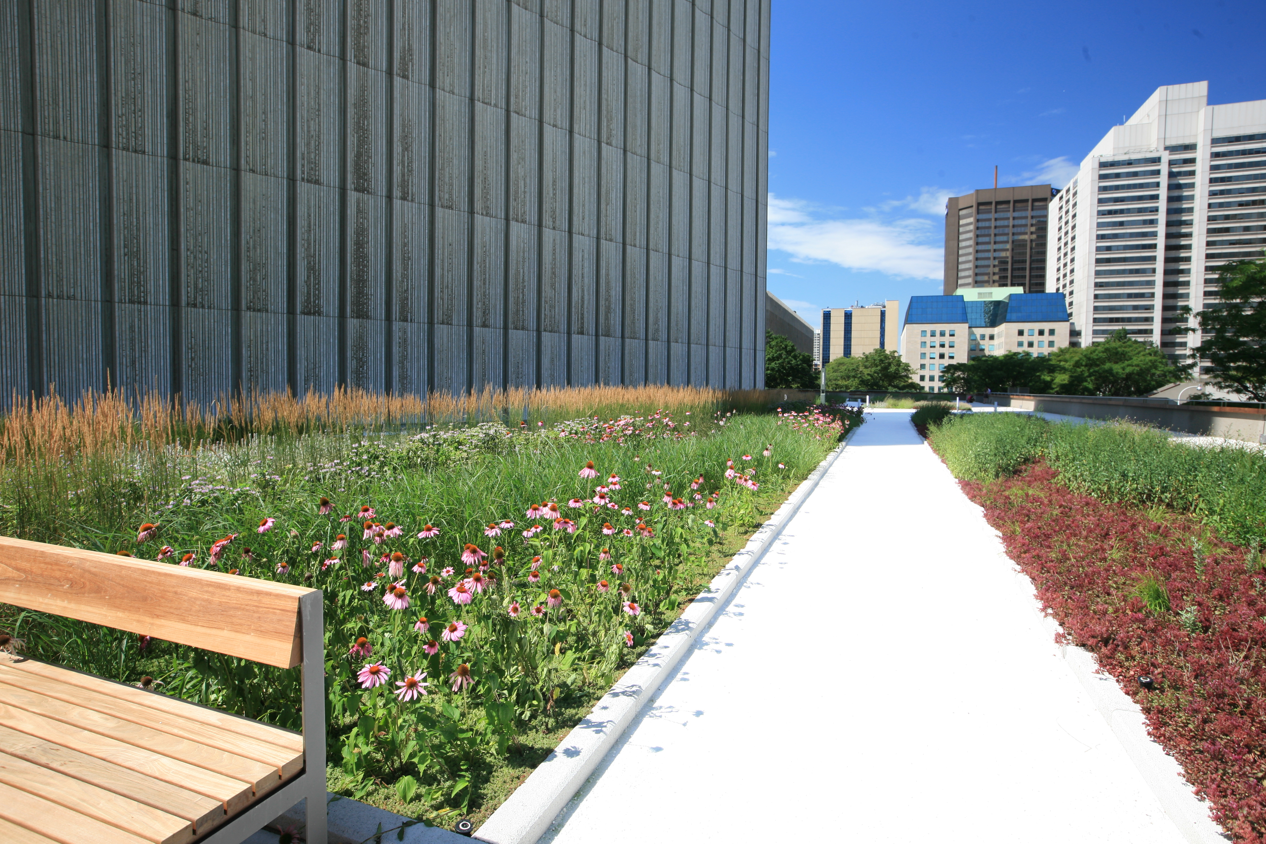 The green roof installed as part of a renovation of the Toronto City Hall Podium completed in 2009 is currently the largest publicly accessible green roof in the city.